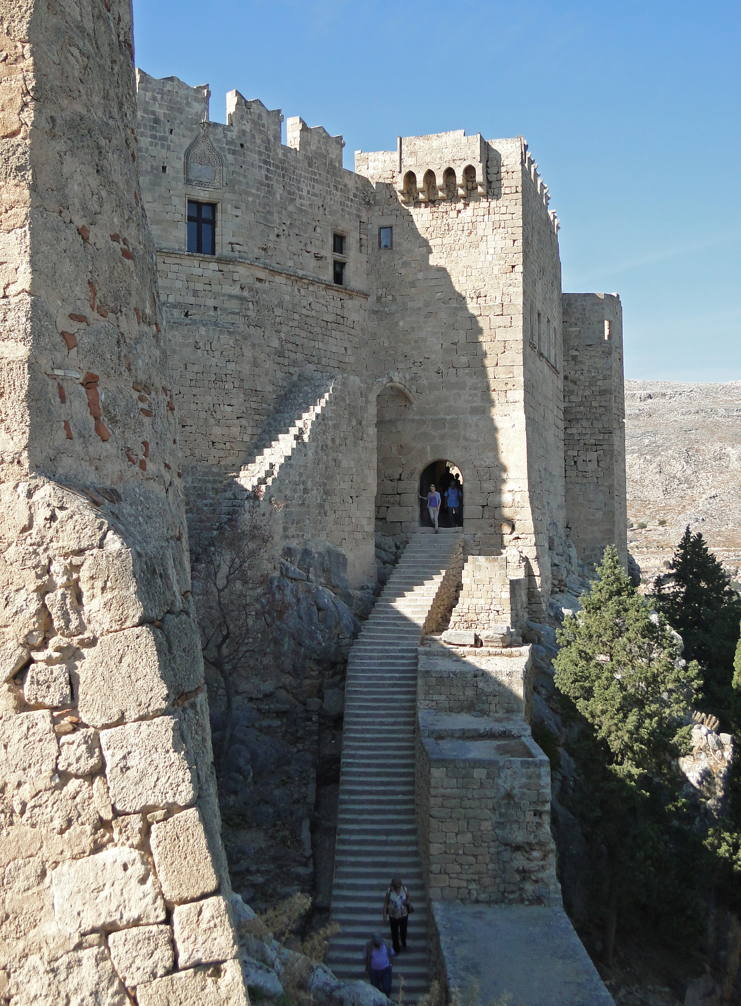 Medieval gate of the acropolis of Lindos, Rhodes, Greece